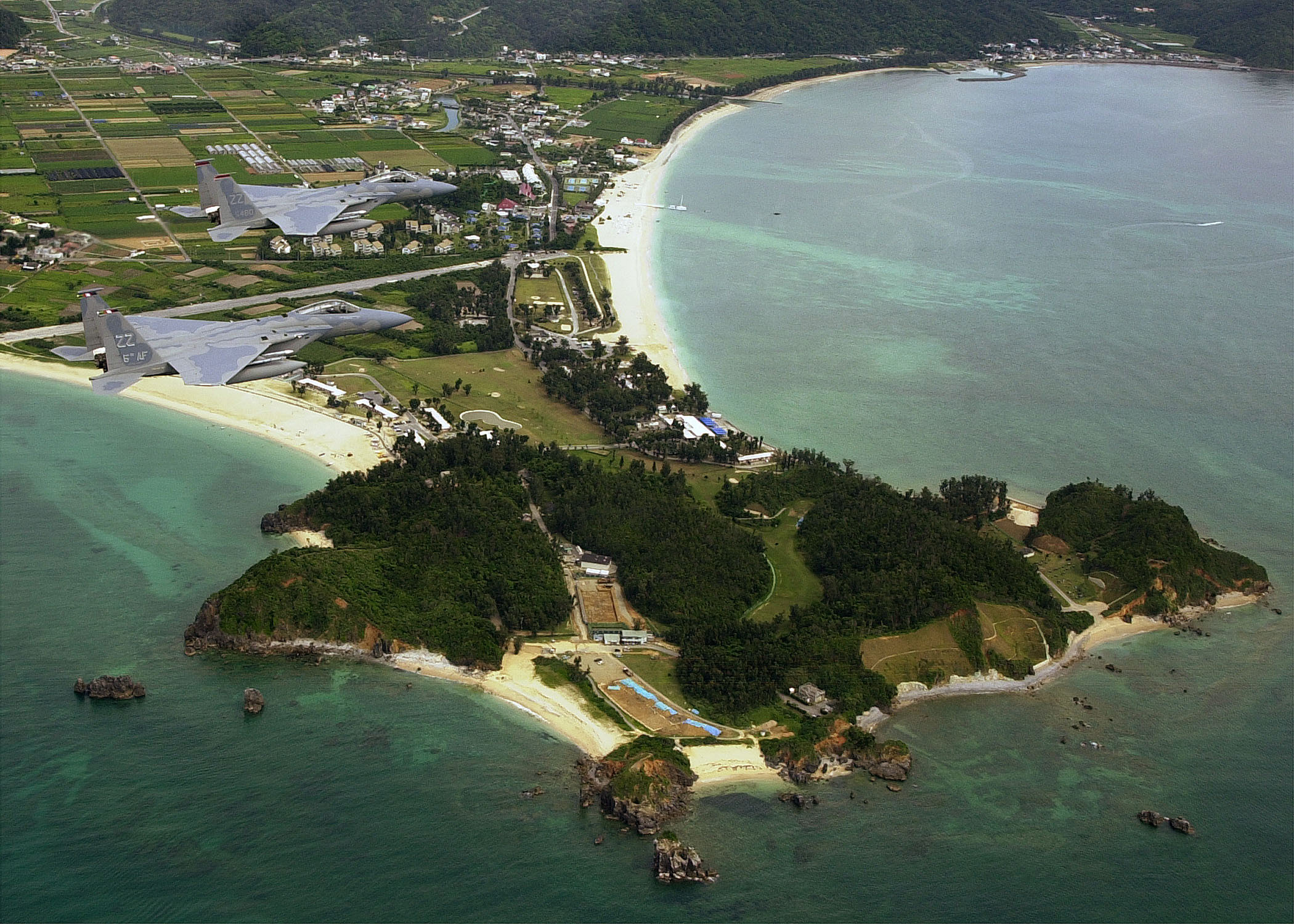 18th Wing Commander, Brig. Gen. Gary North, flies lead in a F-15D Eagle with his wingman Capt. Michael Casey, (F-15C), from the 44th Fighter Squadron, Kadena Air Base, Japan, along with two F-16 Fighting Falcons piloted by Maj. Nathan Hill and Lt. Chris Heber, 36th Fighter Squadron, 51st Fighter Wing, Osan Air Base, South Korea, during a training mission July 13, 2001, over the Pacific Ocean near Okinawa, Japan. (U.S. Air Force photo by Master Sgt. Marvin Krause) (Released)